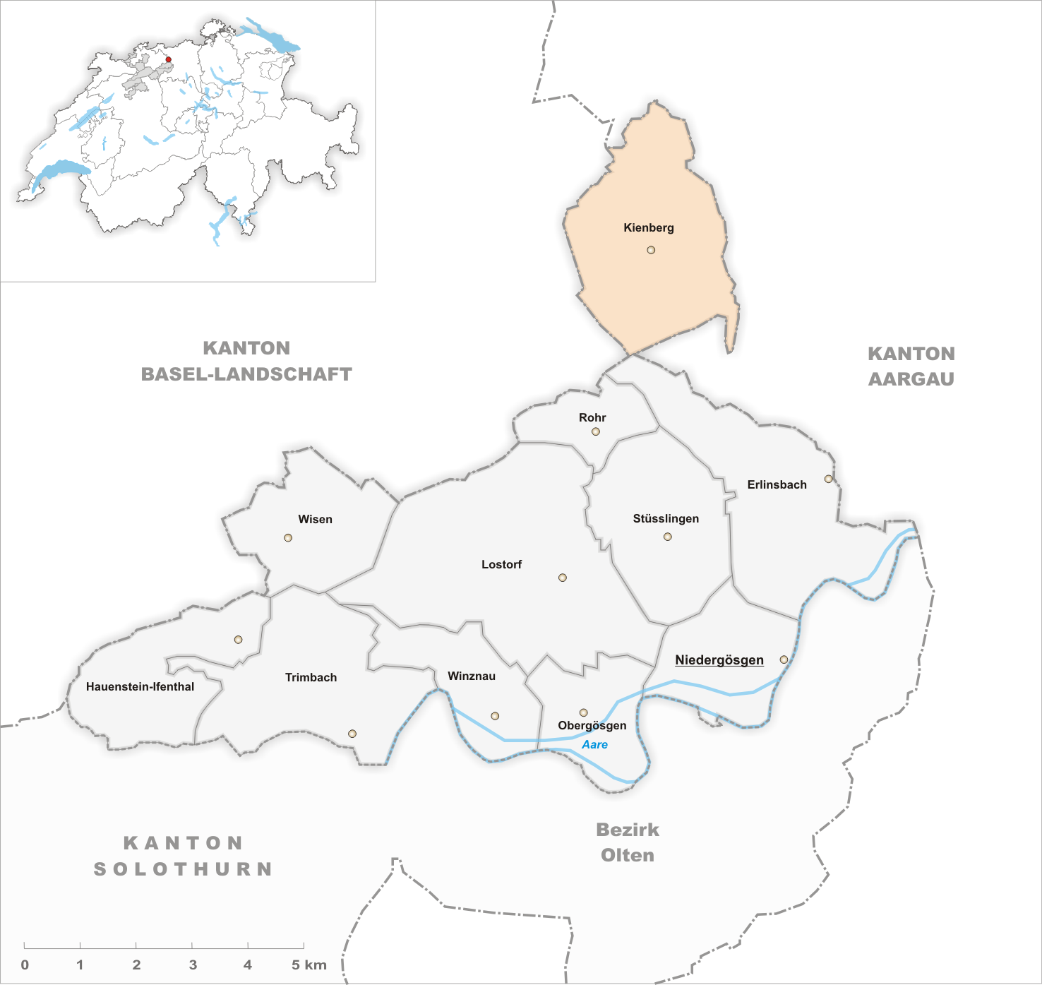 Municipality Kienberg